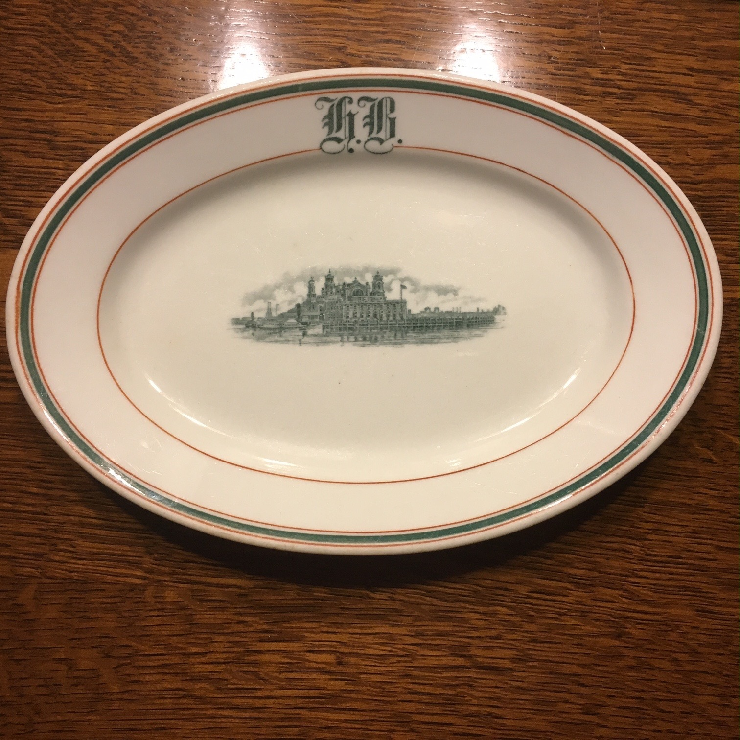 Ellis Island Platter